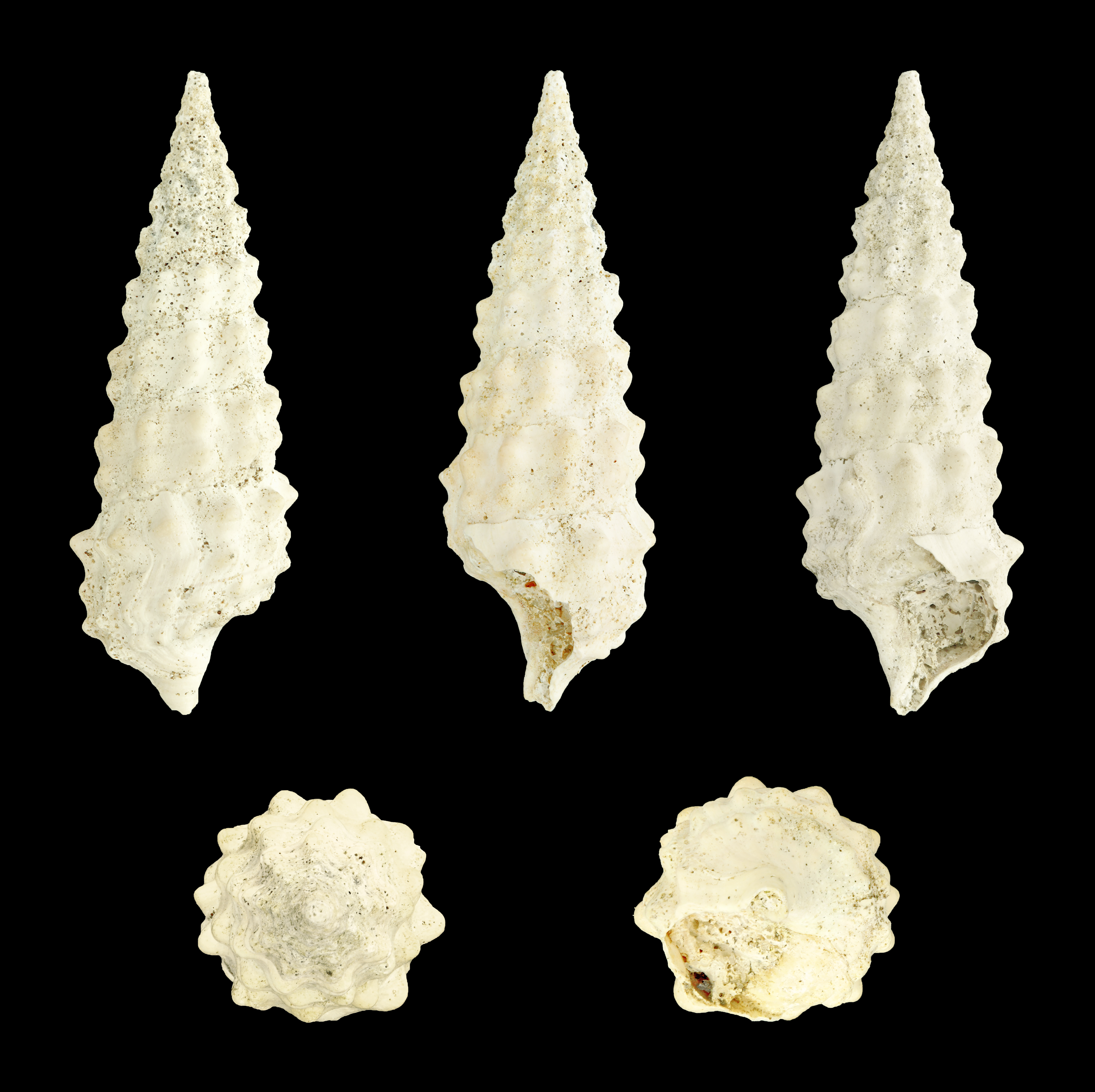 Length 3.2 cm; Eocene, Bartonian; Fère-en-Tardenois, Dept. Aisne, France; Shell of own collection, therefore not geocoded. Dorsal, lateral (right side), ventral, back, and front view.